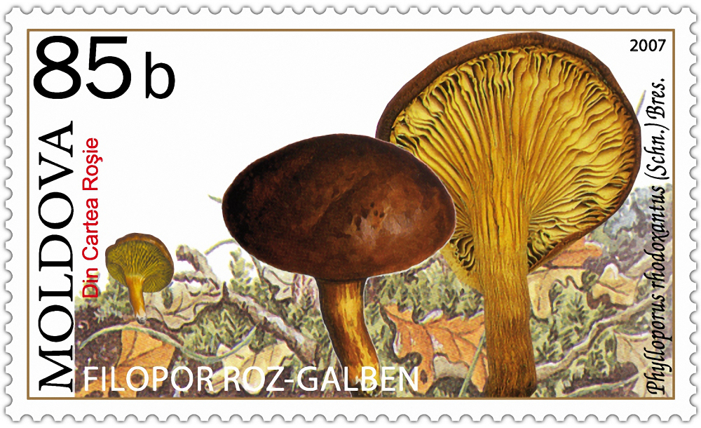 Stamp of Moldova